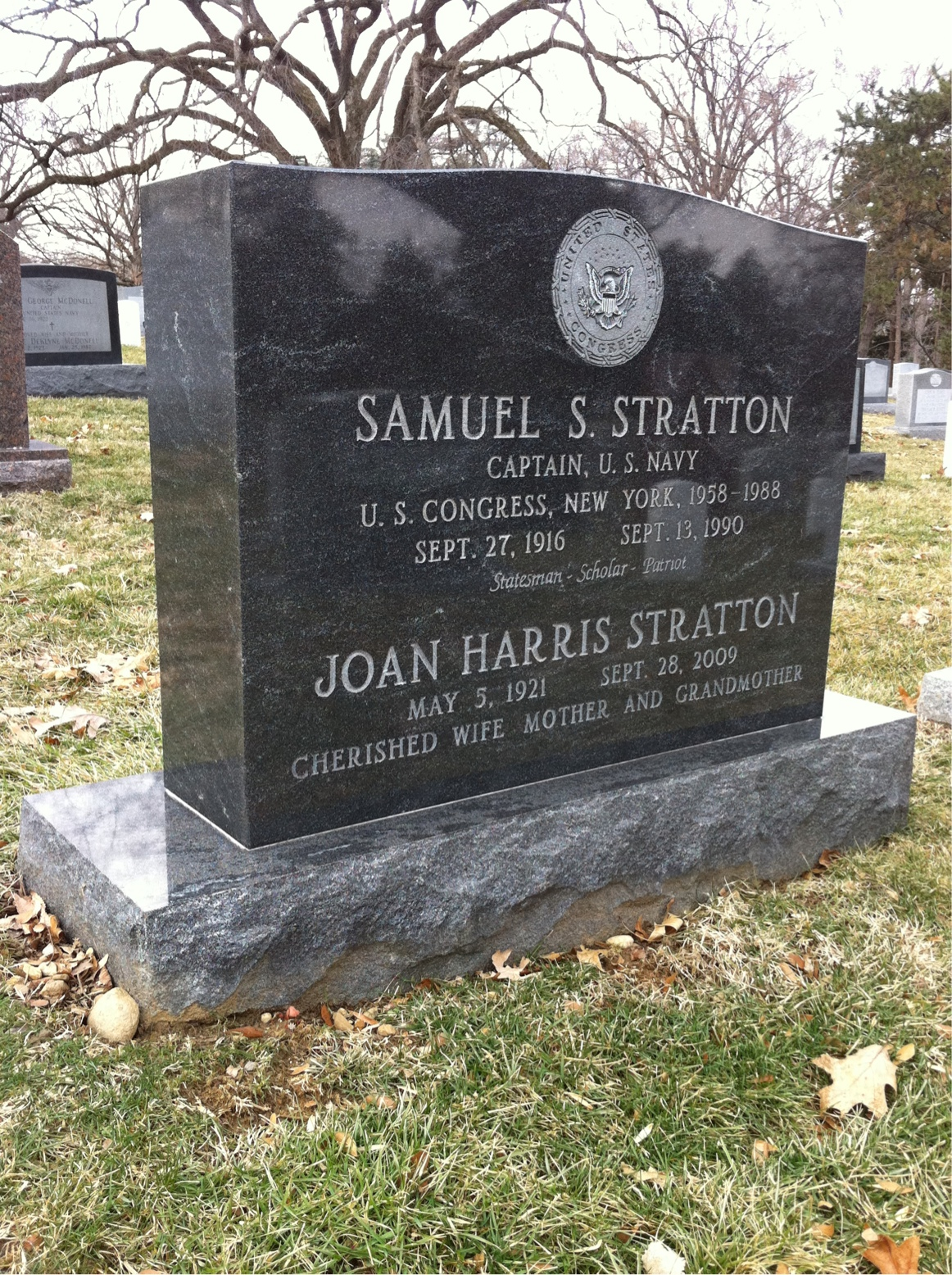 Grave of Samuel S. Stratton at Arlington National Cemetery